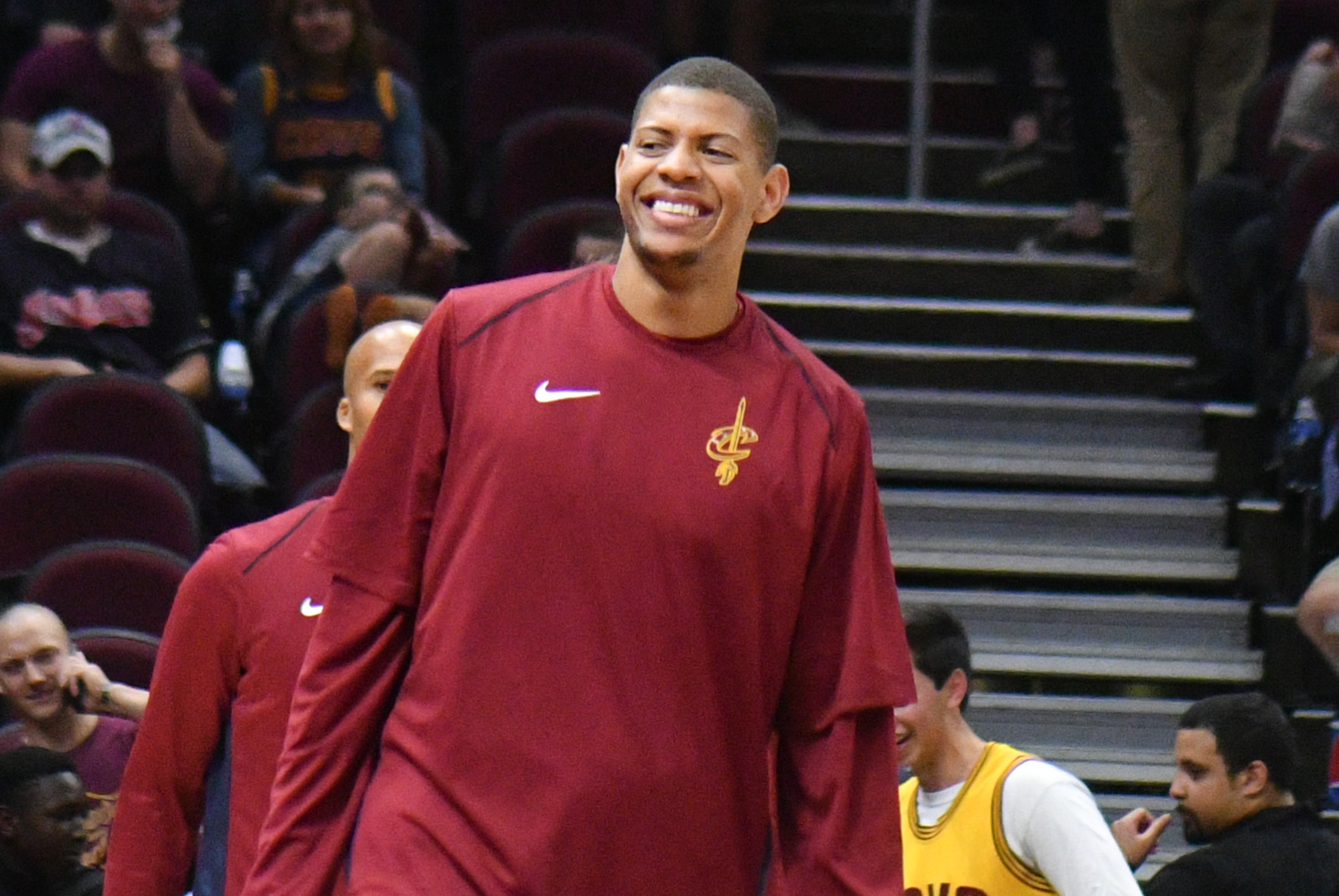 Edy Tavares